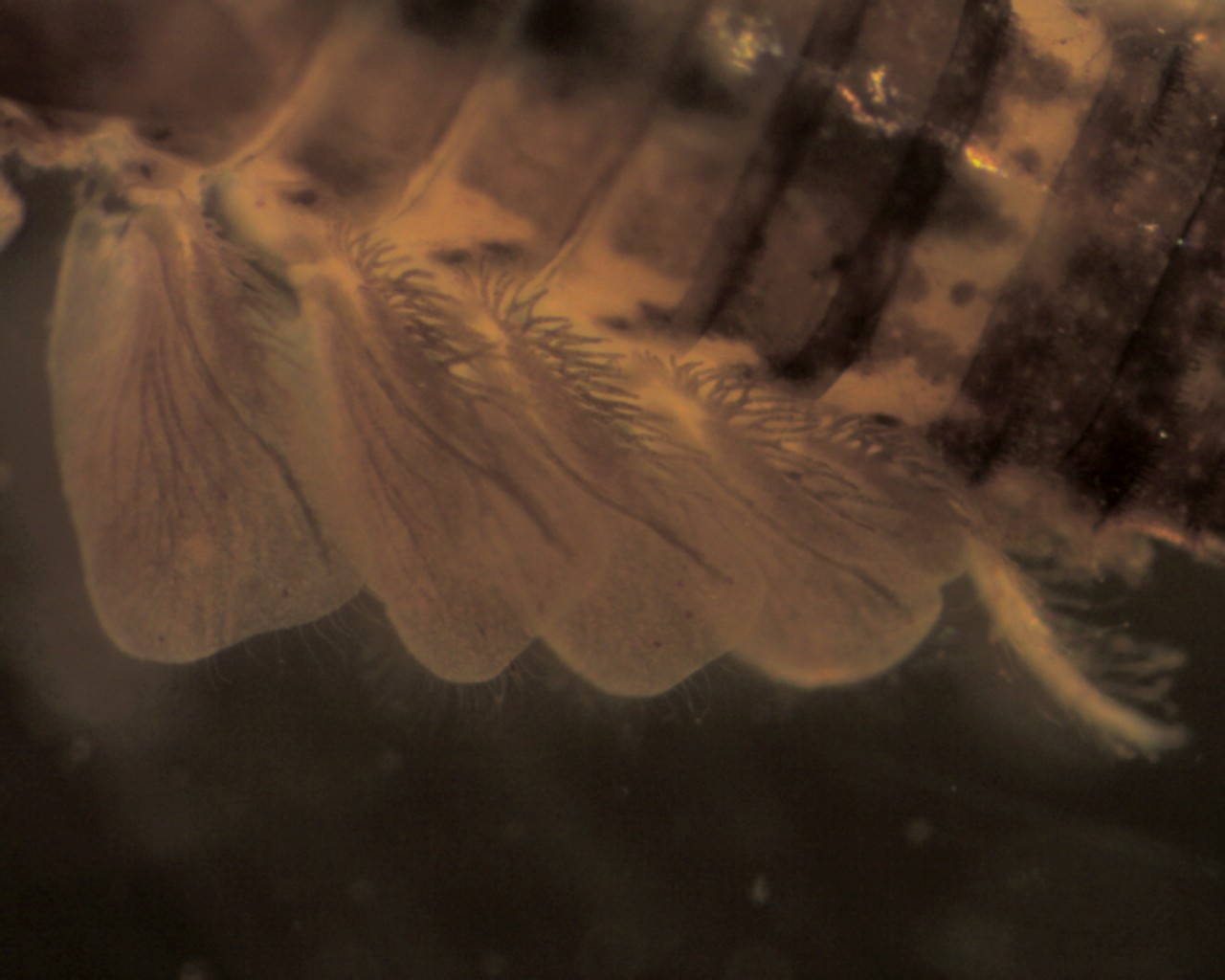 O: Ephemeroptera F: Heptageniidae G: Maccaffertium